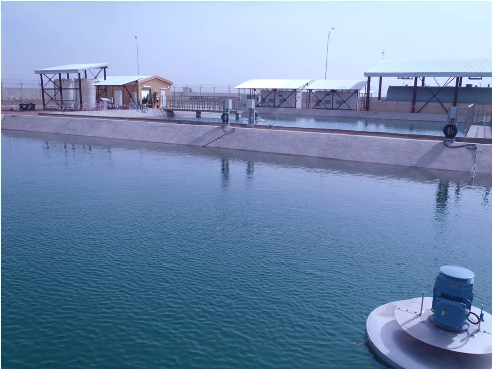 The U.S. Army Corps of Engineers completed construction Jan. 31 of a wastewater treatment plant on Forward Operating Base Shindand in Herat province, western Afghanistan. The project, which was built by an Afghan-owned and operated firm with oversight by USACE, promotes sanitary conditions and good public health practices for troops and other residents of the FOB. The system can treat up to 930,000 liters of wastewater per day. (Photo ID: 826771)